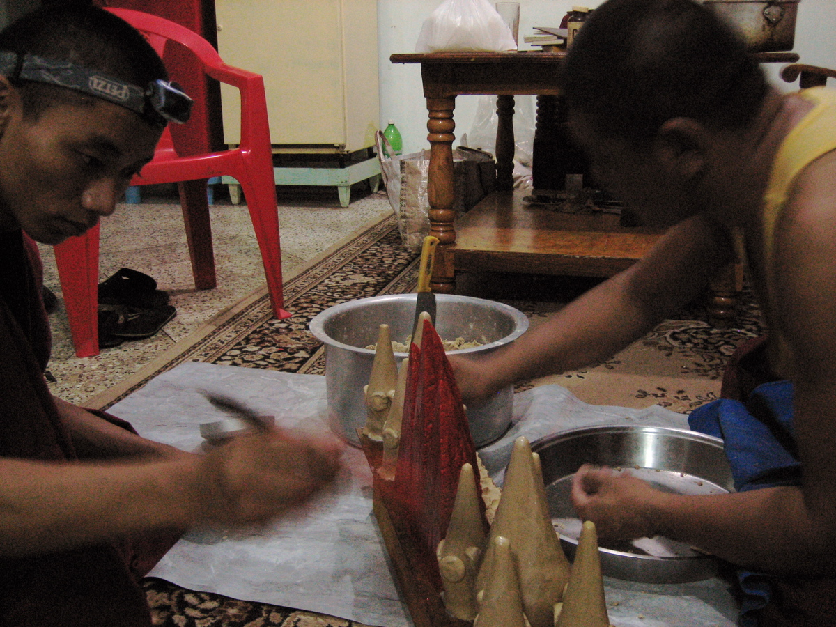 Two monks at Sera Mey Monastery making tormas cakes for offerings.